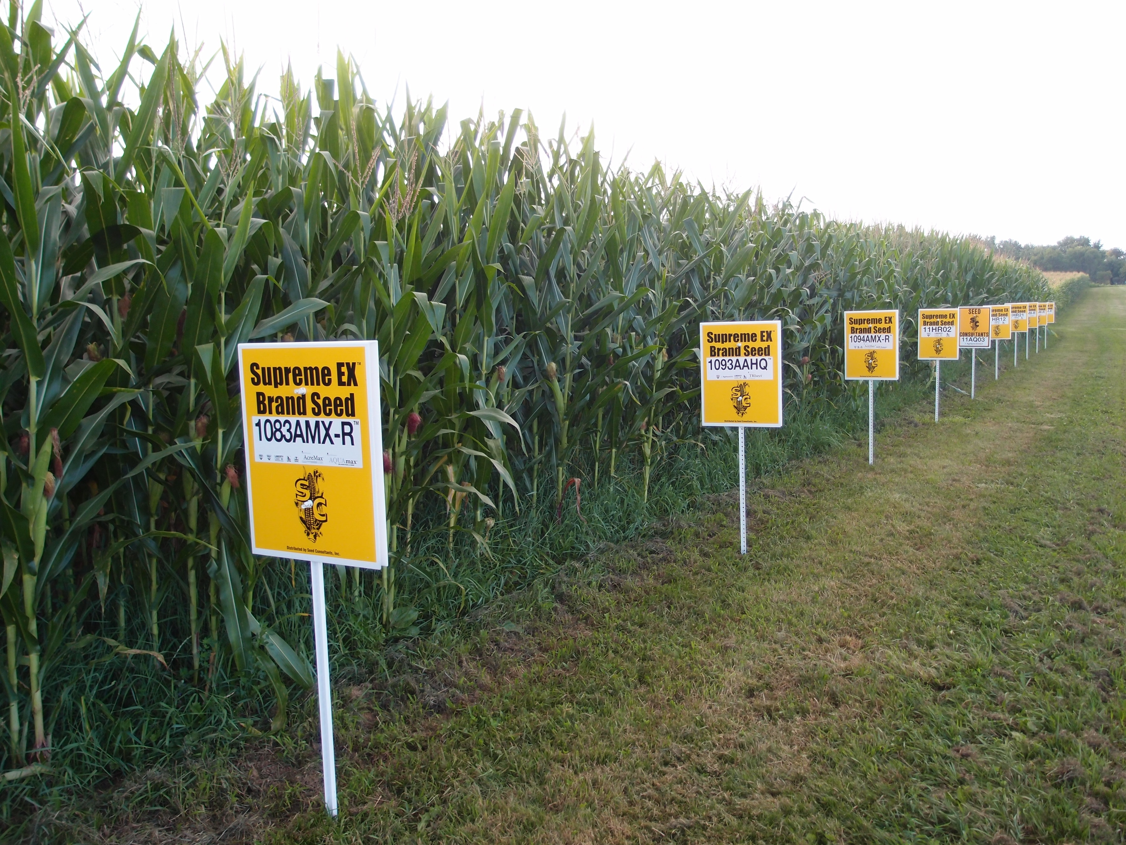 Note the bright purple corn tassels